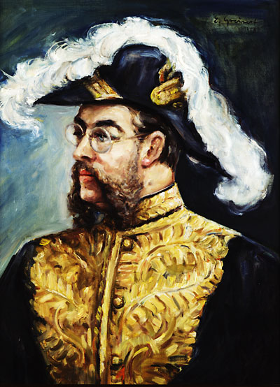 Official portrait of former Lt Gov. of British Columbia (1897-1900), Dr. Thomas Robert MacInnes. (b. 5 Nov. 1840, Lake Ainslie, Cape Breton Island, NS; d. 19 Mar. 1904, Vancouver, BC).